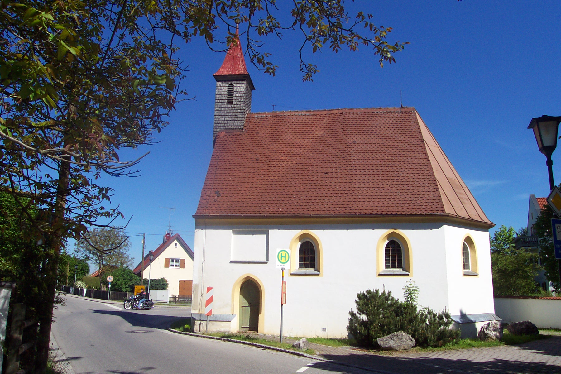 Chapel St. Georg in Mauern - Grafrath, Upper Bavaria, Germany